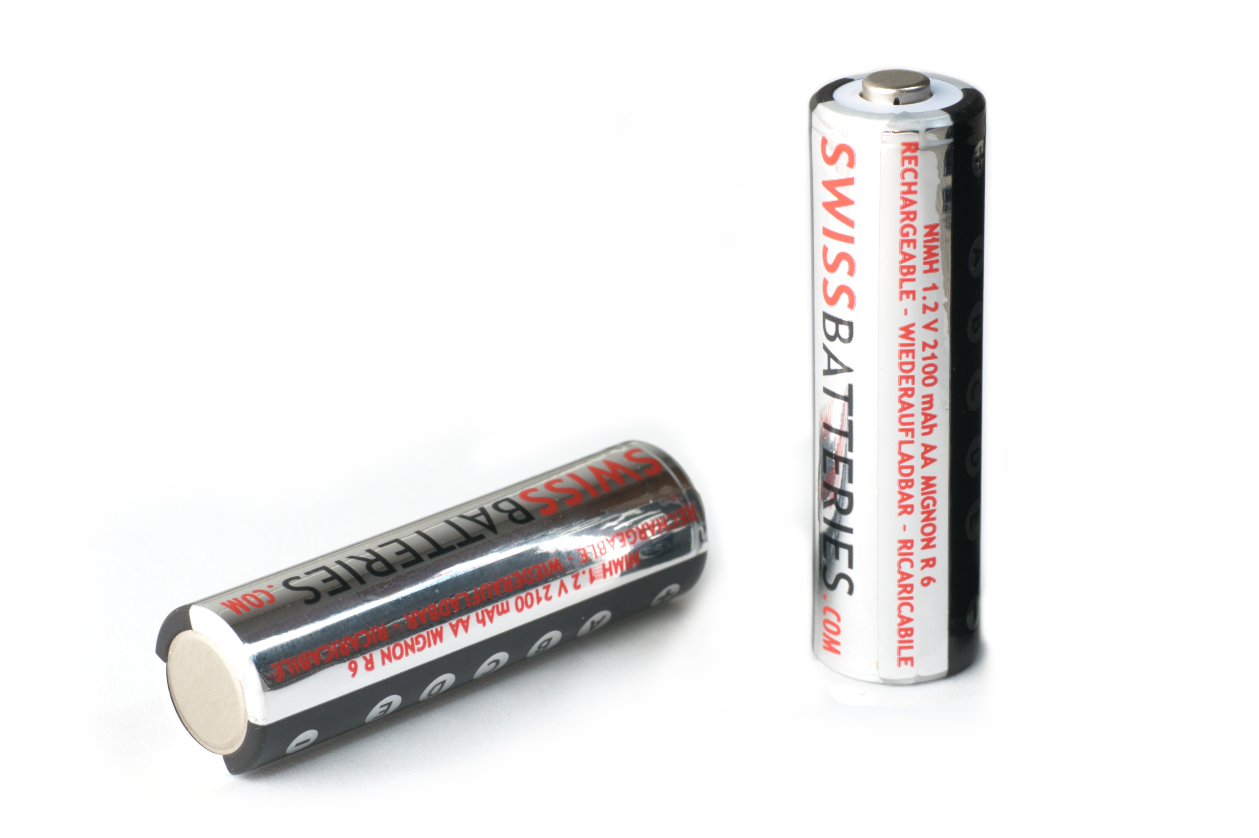 Rechargable NiMH AA batteries